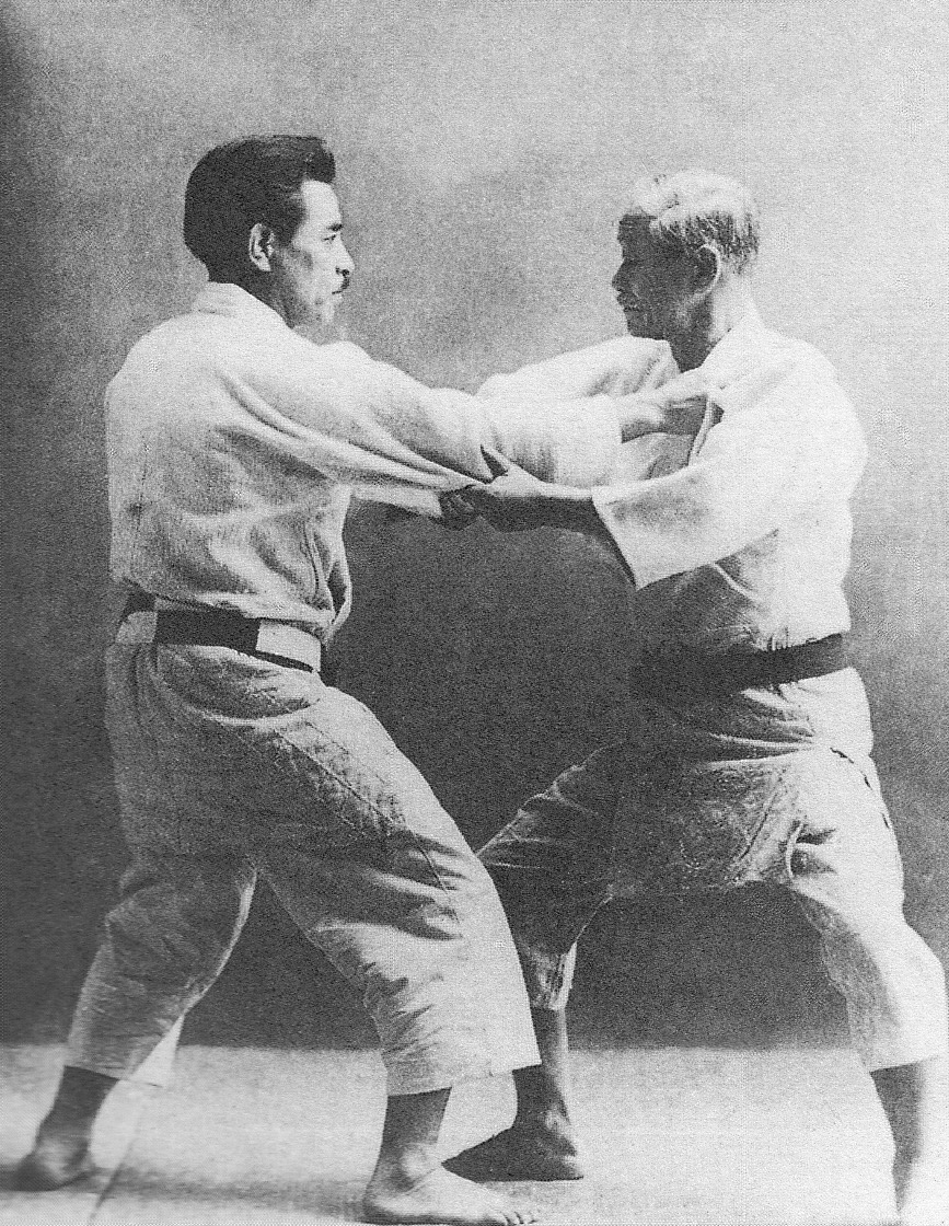 Japanese judoka Jigoro Kano(right) and Kyuzo Mifune(left).